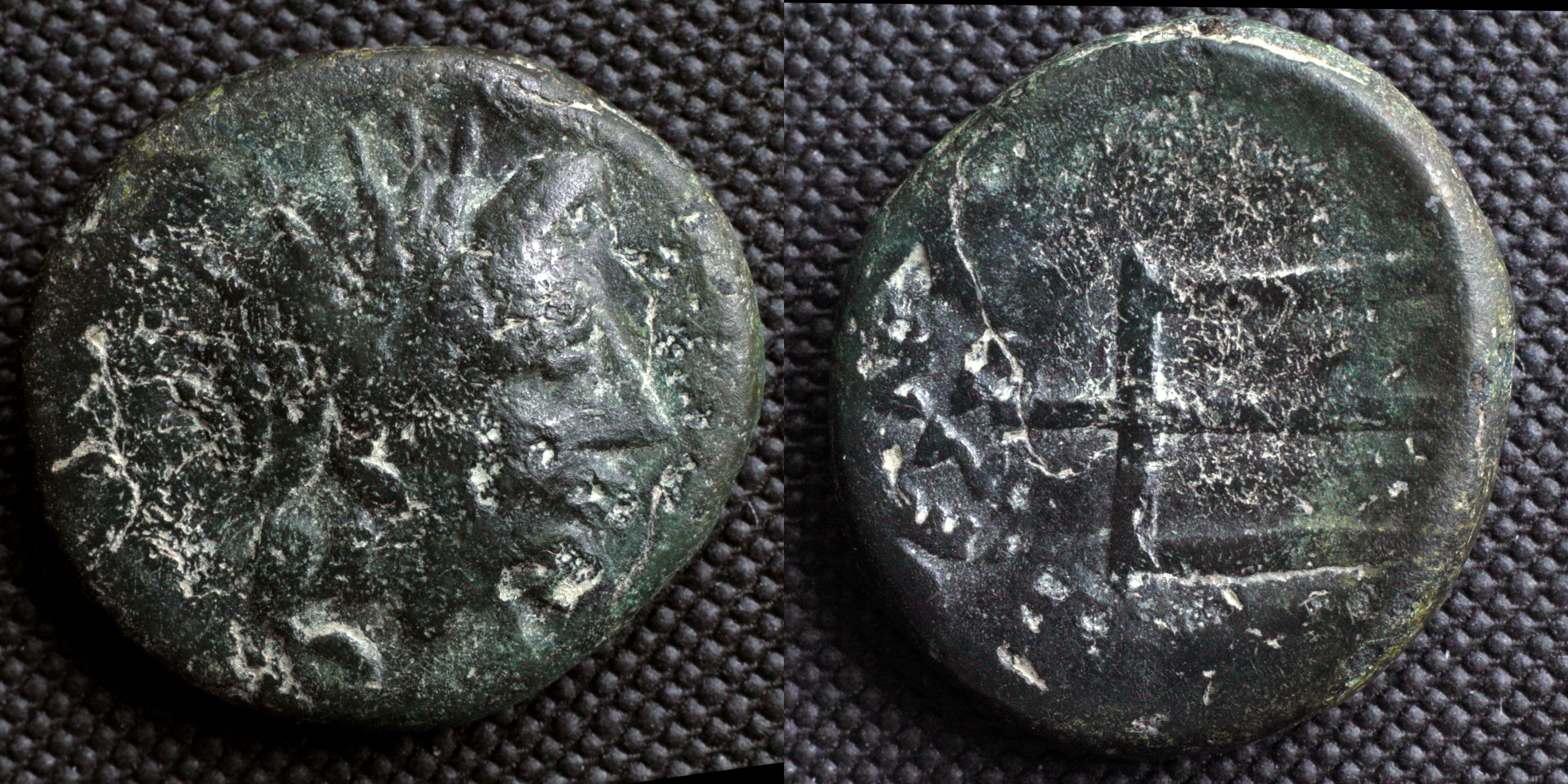 Serdi region 187-168 BC or later obverse: head of rivergod Strymon right reverse: wide trident ref: type: (A?)5B imitation of: SNG Copenhagen 1298-9 var. weight: 8,37g diameter 22-20mm This coin is overstrike of official Thessalonican coin: Thessalonica 187-31 BC obverse: head of Dionysos with ivy wreath right goat standing right ΘEΣΣA_ΛO / N_IK_HΣ (NE) / ? other monograms Sear #1466; BMC Macedonia p. 110, 10 - 16 Imitations from Serdi region weren't used to fool Macedonian traders but as their own currency. This coin is one of overstrikes on official Macedonian coins which prooves this theory.